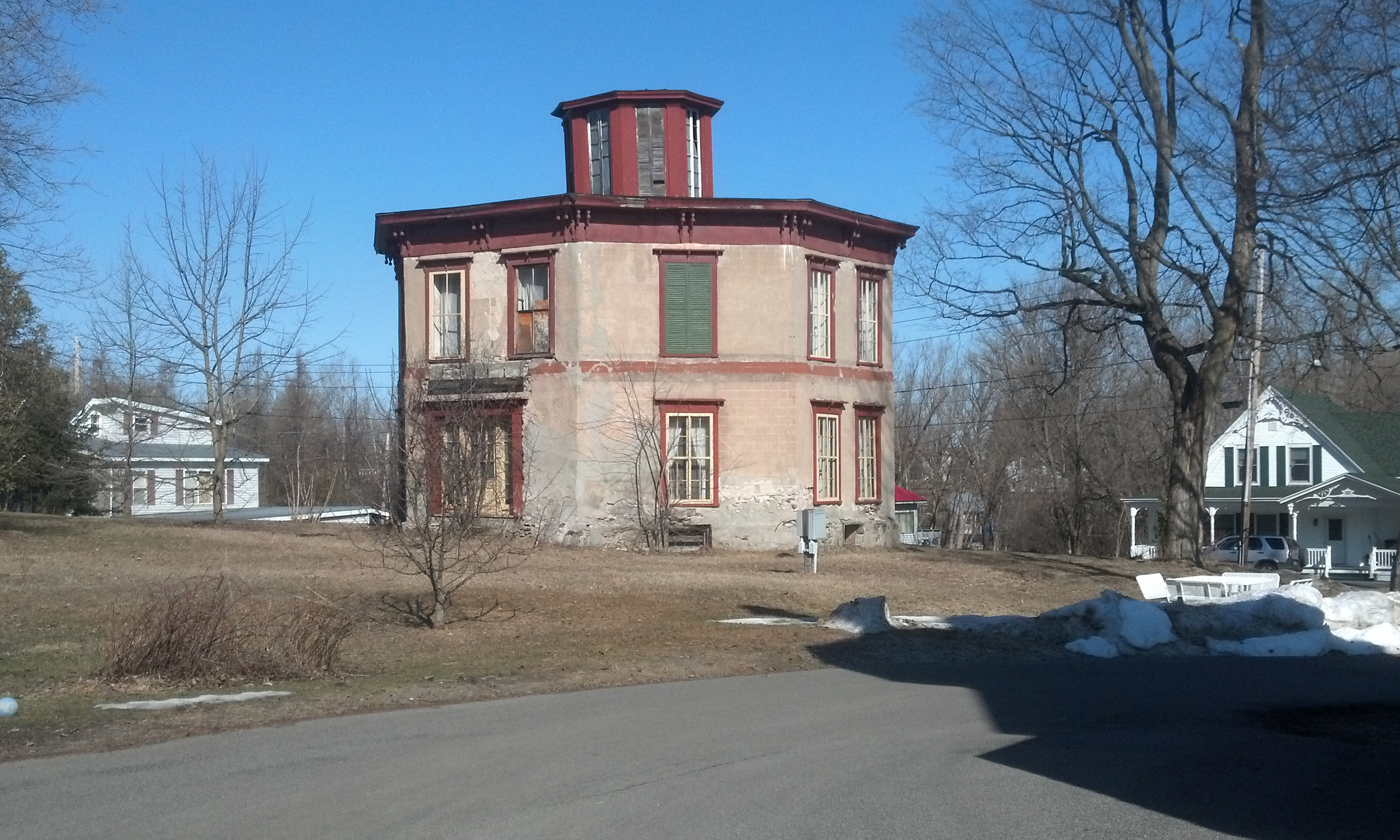 Picture of the Dr. Buck-Stevens House in Brasher Falls–Winthrop, New York.